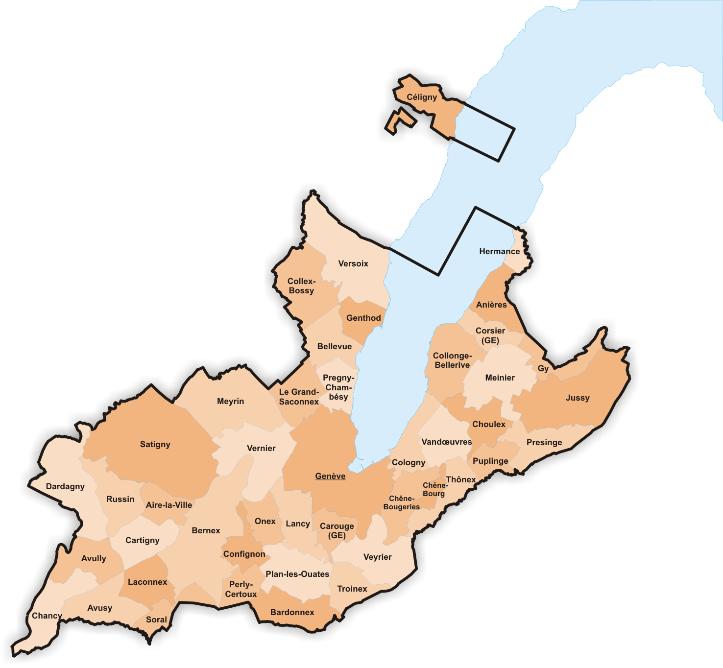 Municipalities in Canton Genf